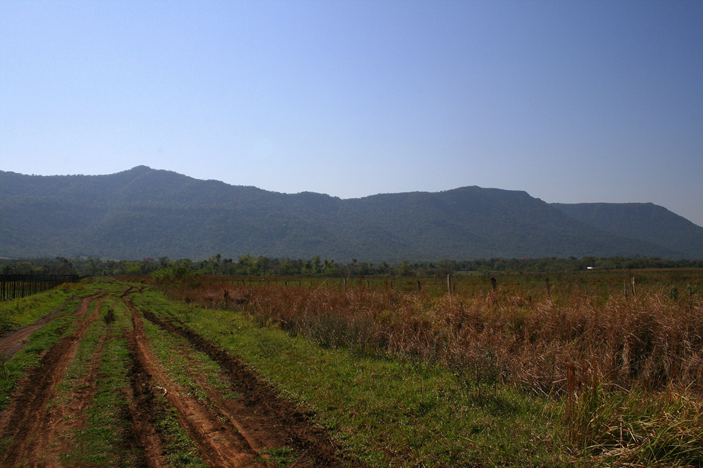 Yvytyrusu valley near General Garay city, Guairá department, Paraguay